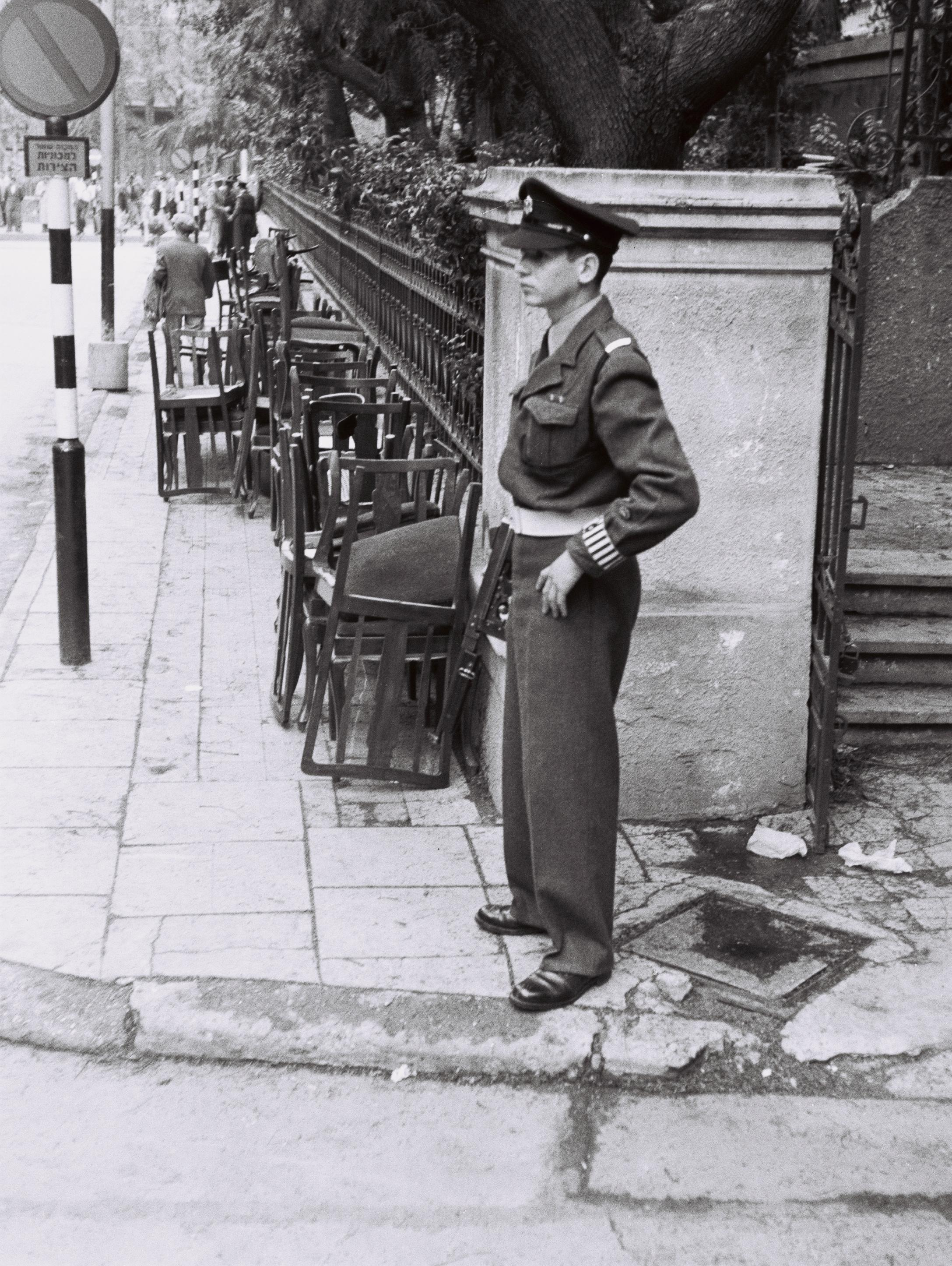 Policeman guarding furniture on the sidewalk during the move out of personnel from Russian embassy on Rothchild blvd. in Tel Aviv.